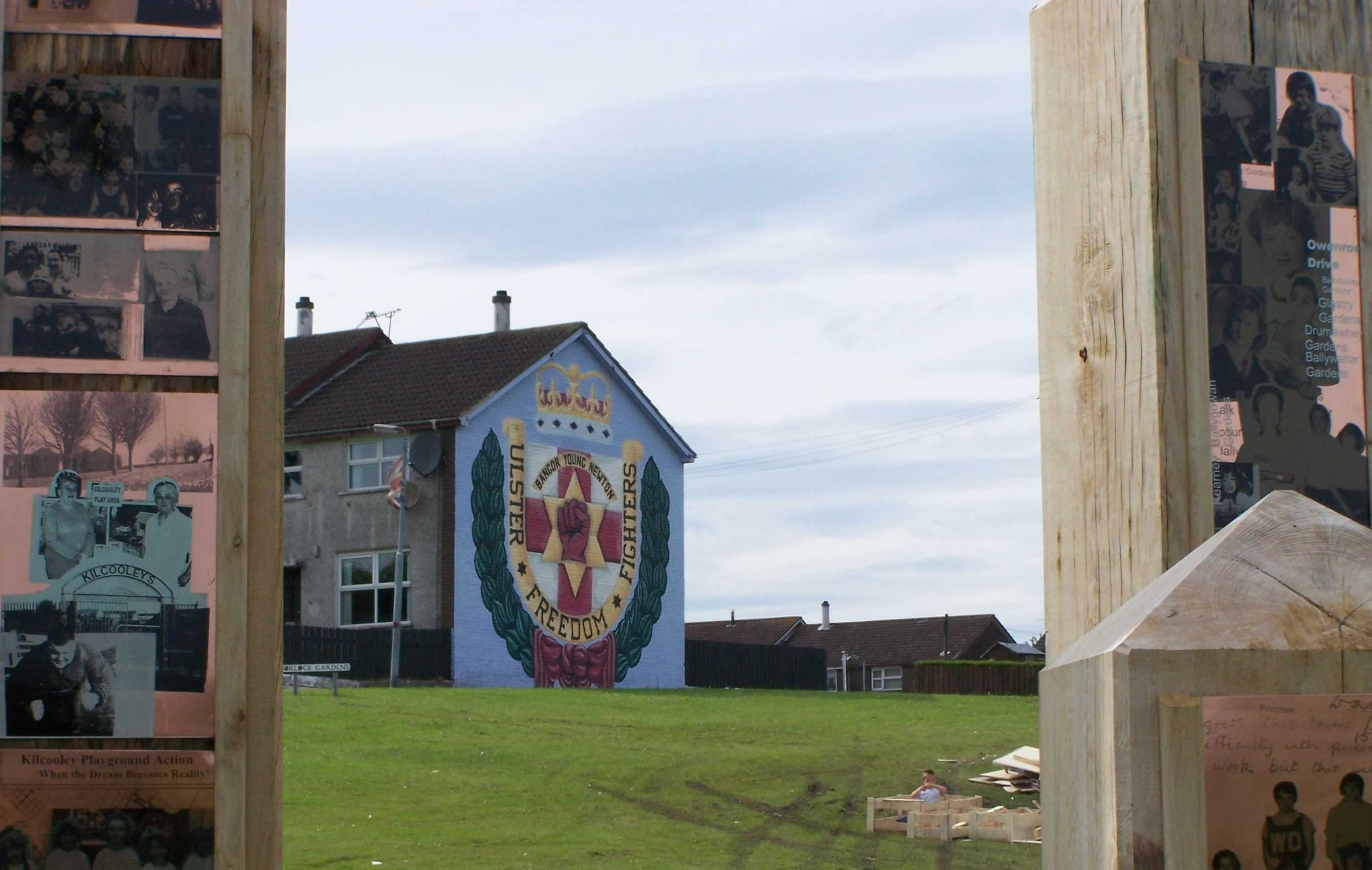 Orlock gardens seen from expensive sculpture